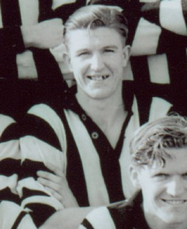 Photograph of Alan Brown in 1945